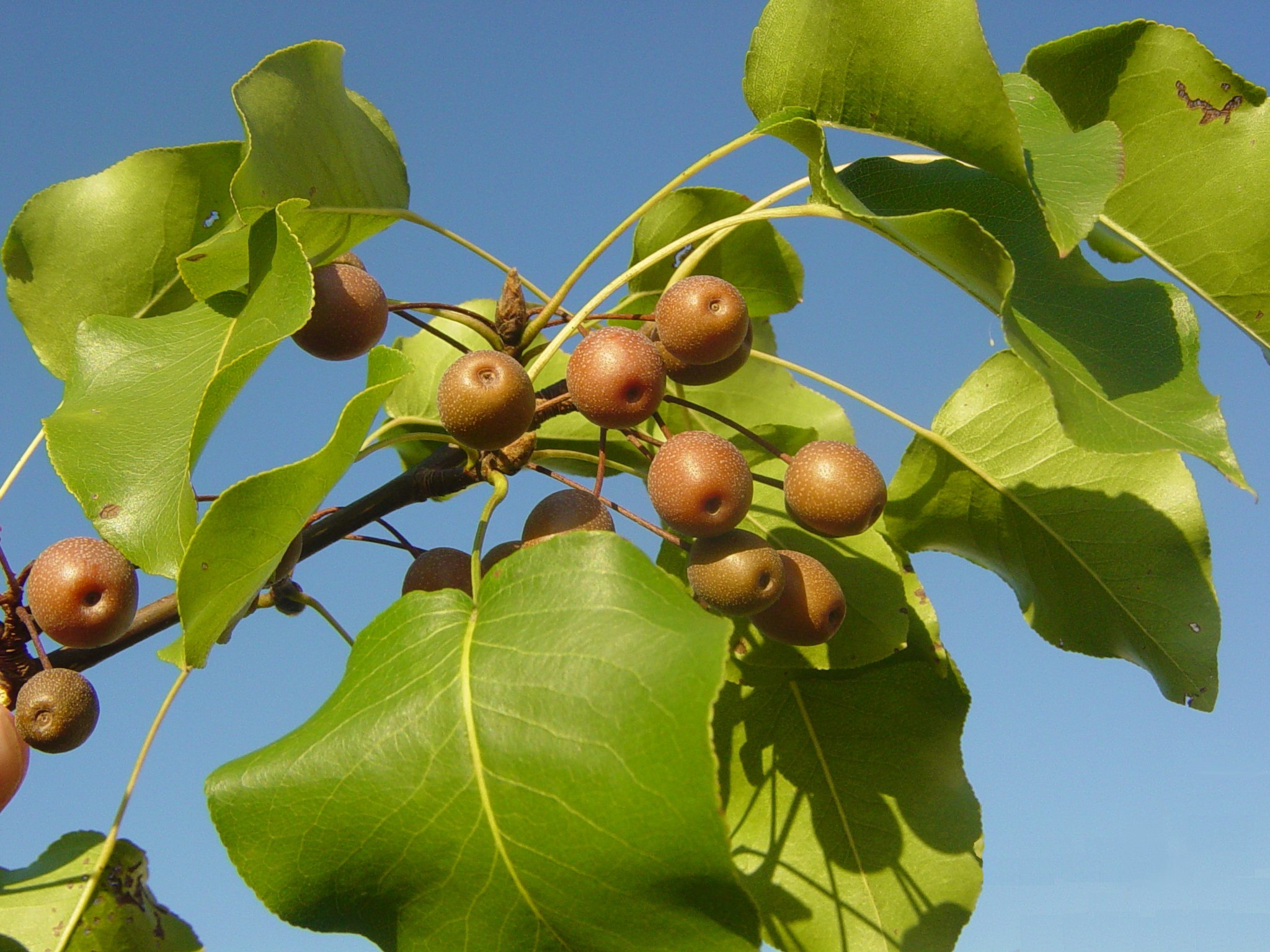 Callery Pear, resolution 2048x1536, file size appx 1.3MB, taken at Oceana Pond, Virginia Beach, Virginia, USA